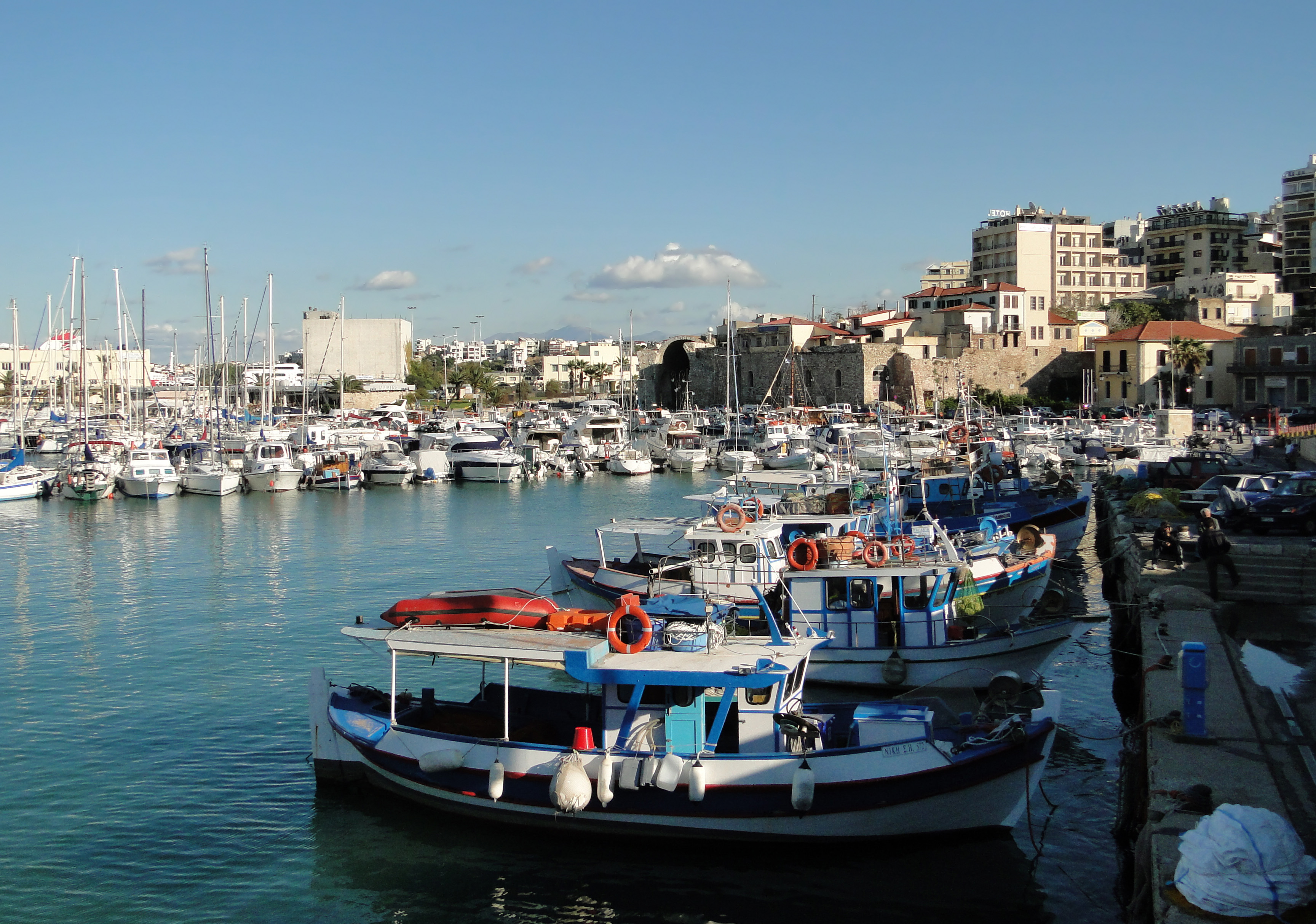 Port of Heraklion, Crete, Greece